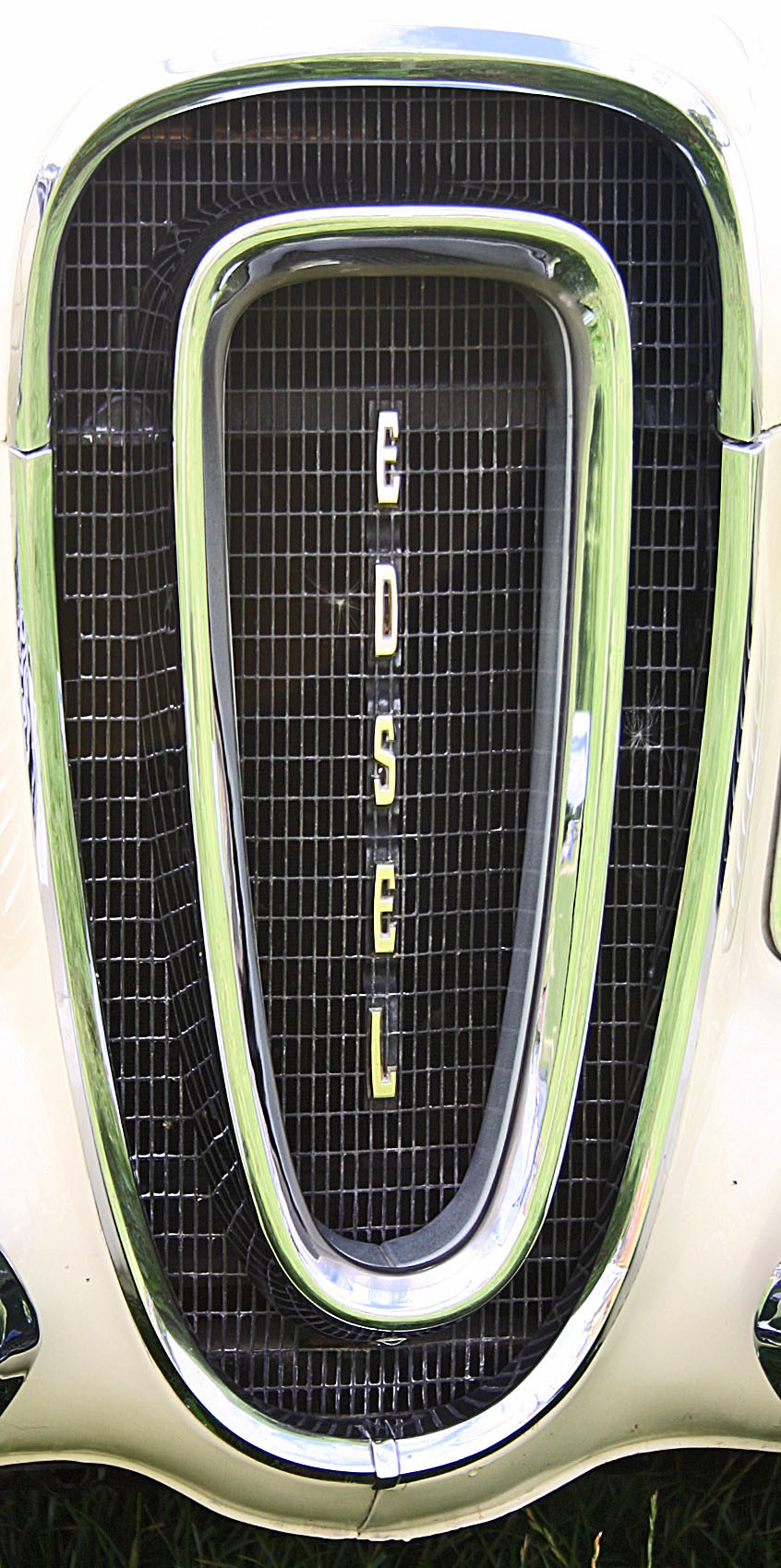 The original, much criticised, 'Horseshoe' Edsel grille for 1958